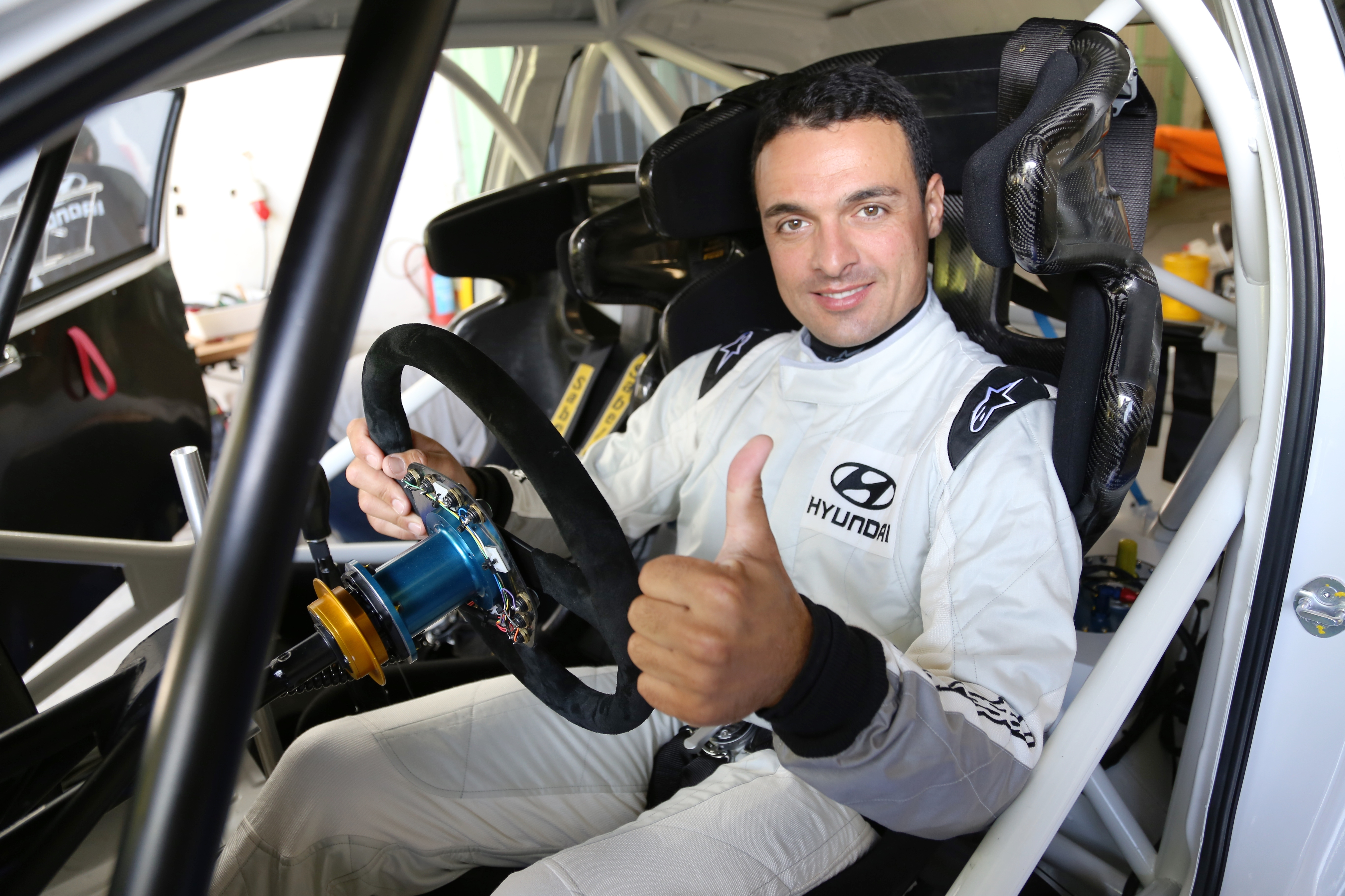 French rally driver Bryan Bouffier testing the Hyundai i20 WRC, for the upcoming 2014 WRC season.